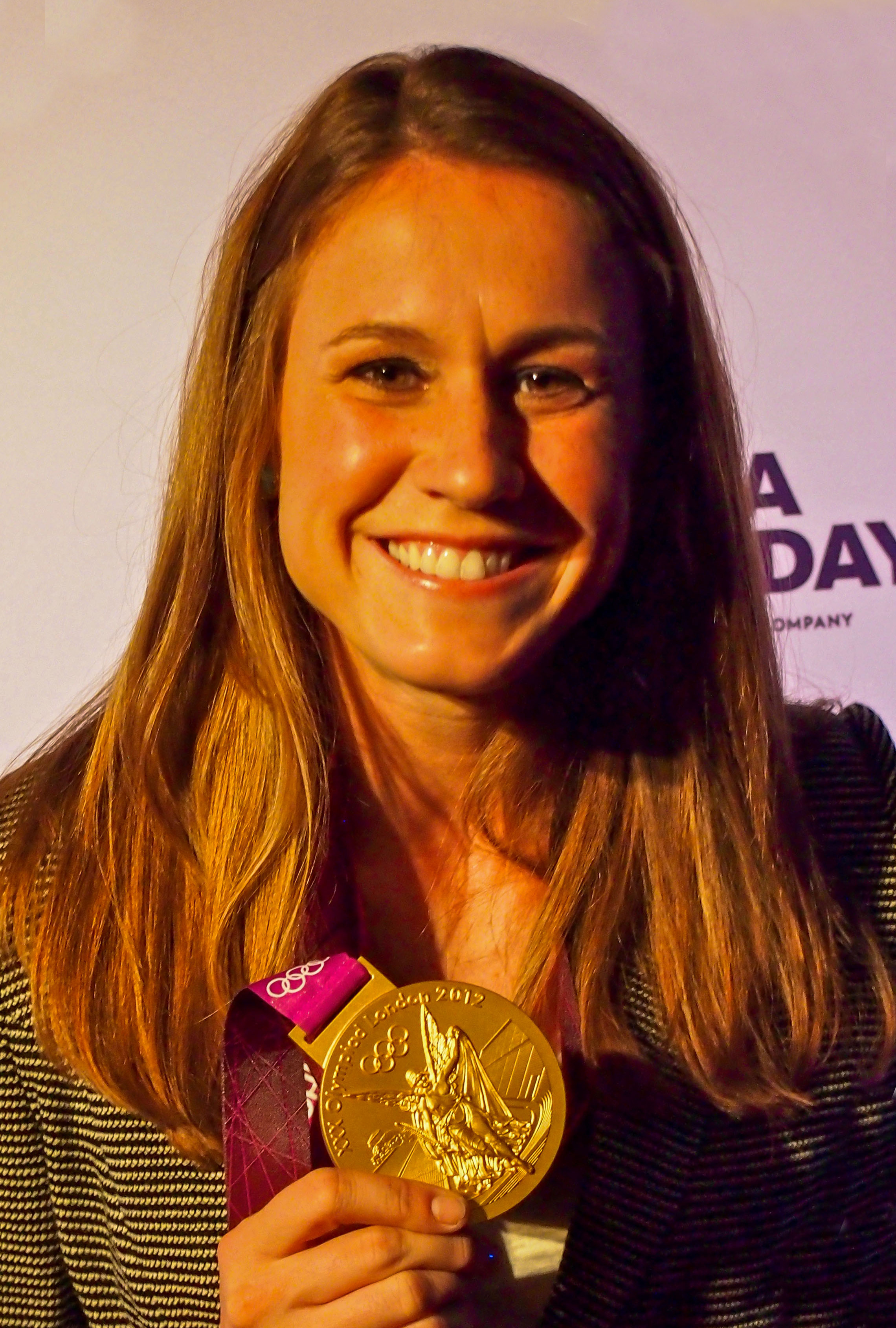 Three time USA Women's Soccer Gold Medalist Heather O'Reilly said tonight at the USA Today 30th Anniversary party, "Pressure is a privilege" about the win gold or bust mentality of the soccer club. Here she is touting her latest piece of gold.